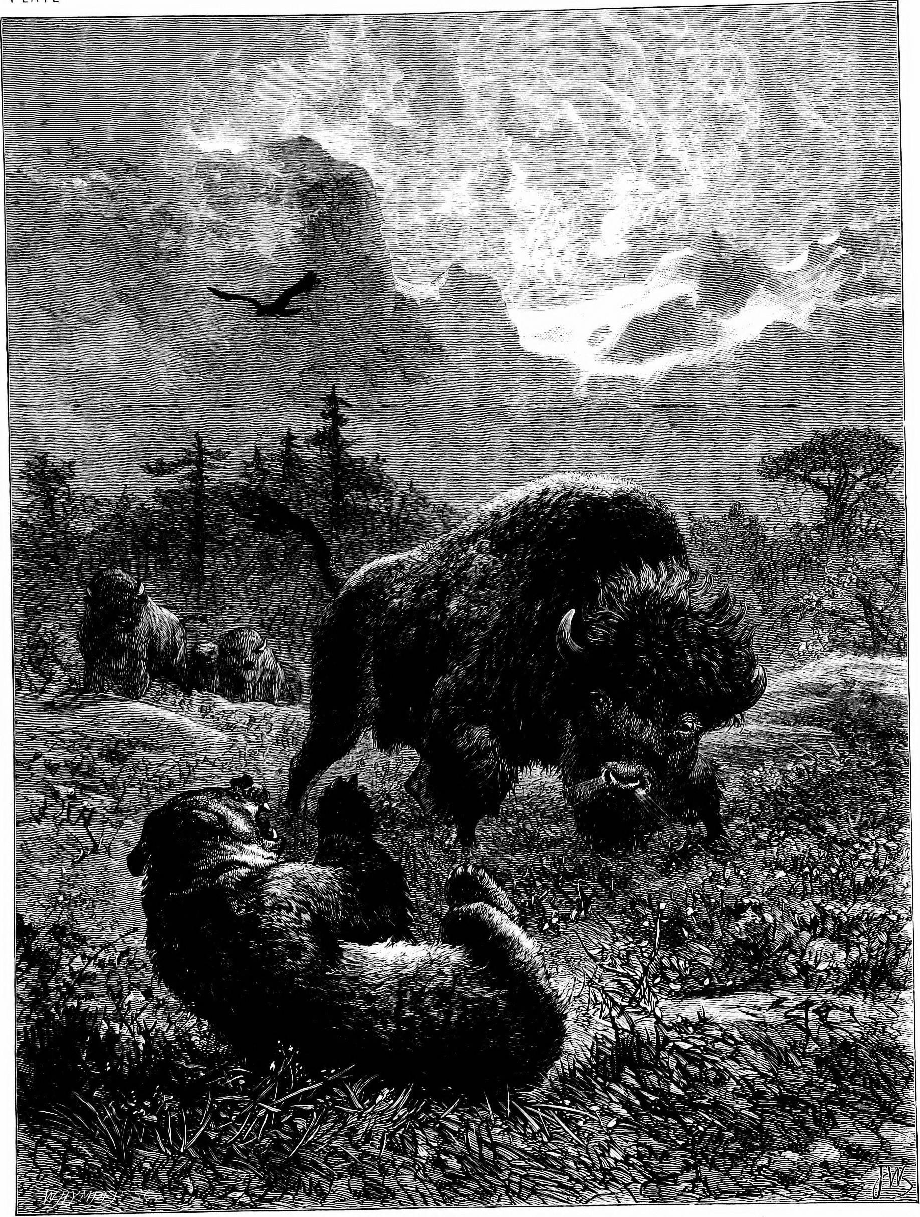 Title: The life and habits of wild animals Year: 1874 (1870s) Authors: Wolf, Joseph, 1820-1899 Elliot, Daniel Giraud, 1835-1915 Subjects: Animal behavior Birds Publisher: London, A. Macmillan Text Appearing Before Image: ly it cannot continue its rapid course for any length of time.Terrible would be the duel, if when aroused to anger, these two great beasts shouldmeet and. engage in conflict. Difficult indeed would it be to foretell which would ,come off victorious. Their mode of. life does not often cause themi to interferewith each other, the Bear preferring the seclusion of the thick jungle, while theBison, as I have said, is a dweller on the open plains. It is possible, however,that they have fierce disputes at times, and the moment has been selected forillustration when a sharp-clawed Grizzly is overthrown by a blow delivered bythe armed head of his ferocious-looking adversary.. It is impossible to surmise theresult of this conflict, for we may rest assured that one blow will not put the bearhors-de-combat. When he next returns to the charge. the position of the com-batants may be reversed, and terrible will be the struggle for the mastery, betweensuch great and powerful rival monarchs. PLATE y\/ Text Appearing After Image: RIVAL MONARCHS. THE KING OF BEASTS.